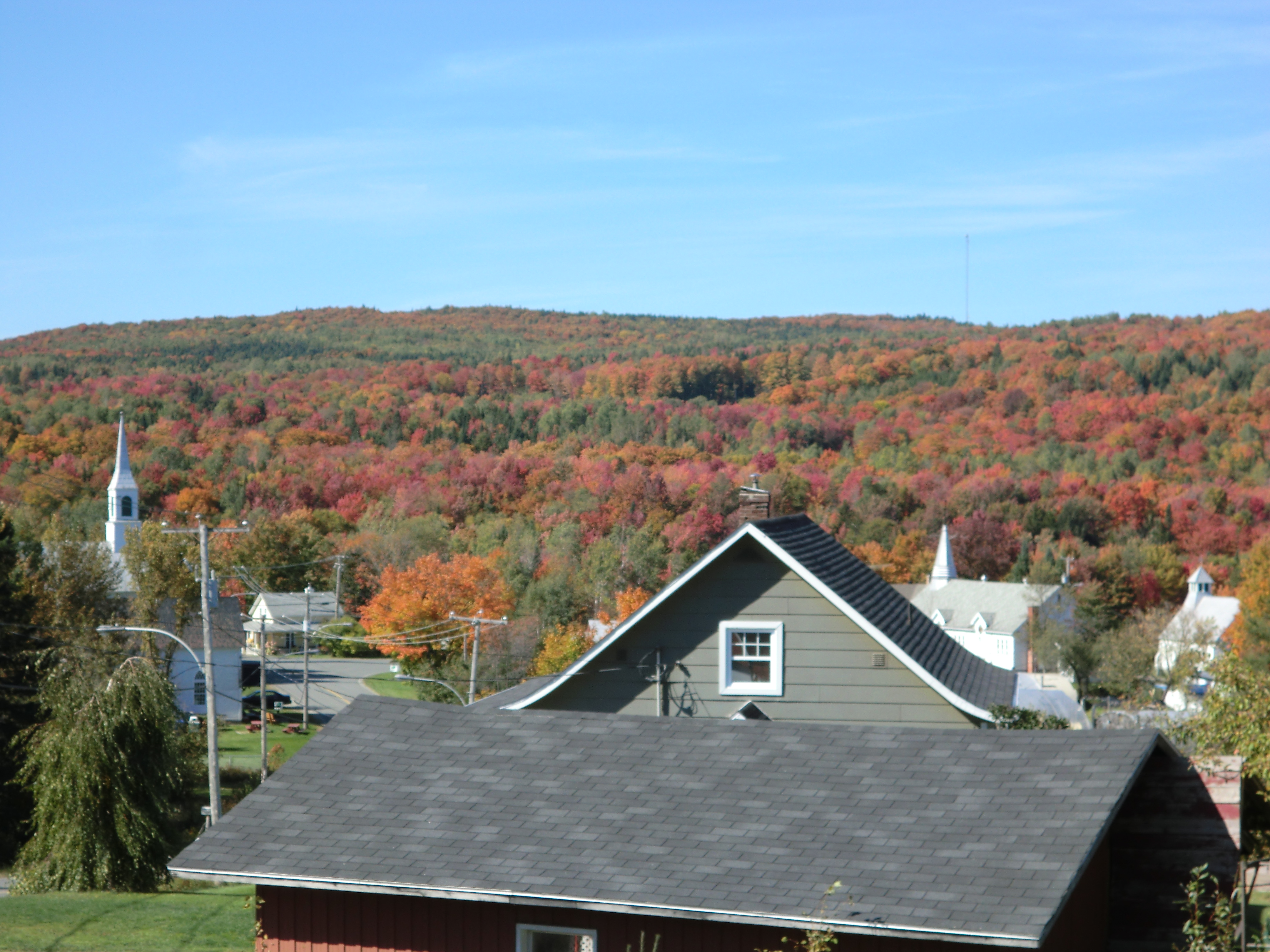 View of the village from the main route.